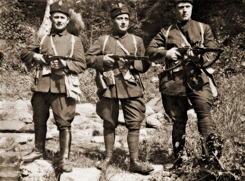 bulgarian revolutionary/ies Mijo Babic, Vlado Chernozemski and Zvonimir Pospisl per